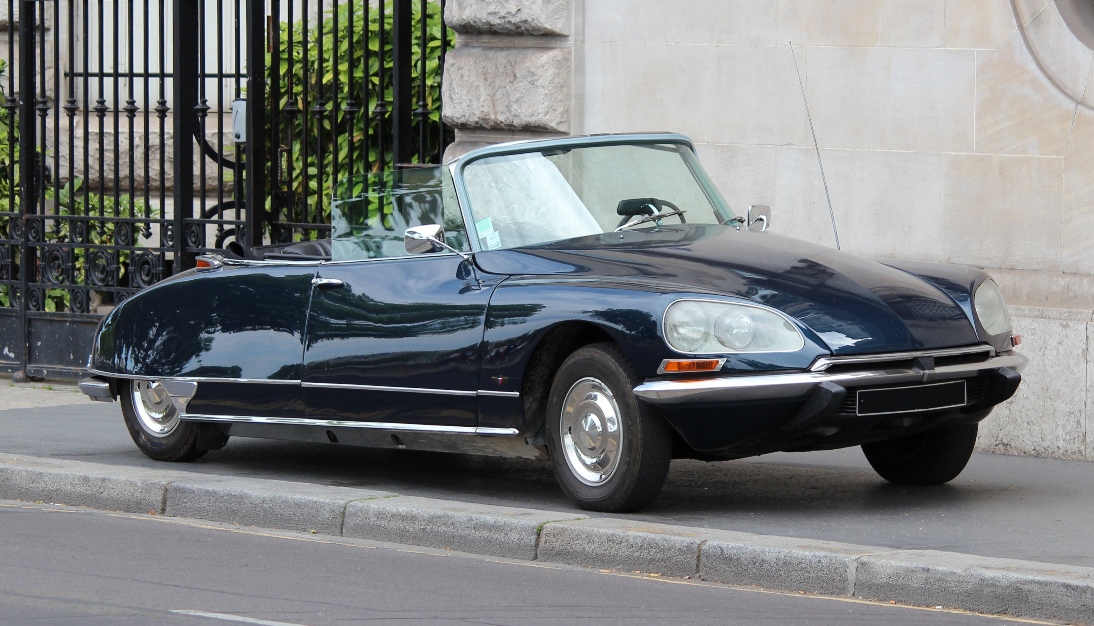 Citroën DS21 Cabriolet from 1969 parked outside 27 Quai Anatole France, Paris. The exact model has been confirmed in a private communication with Jebulon.